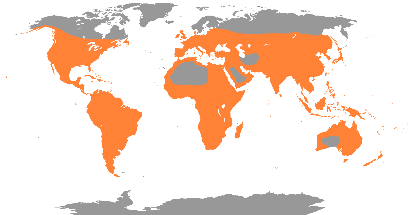 Map showing the range of the Herons and allies.